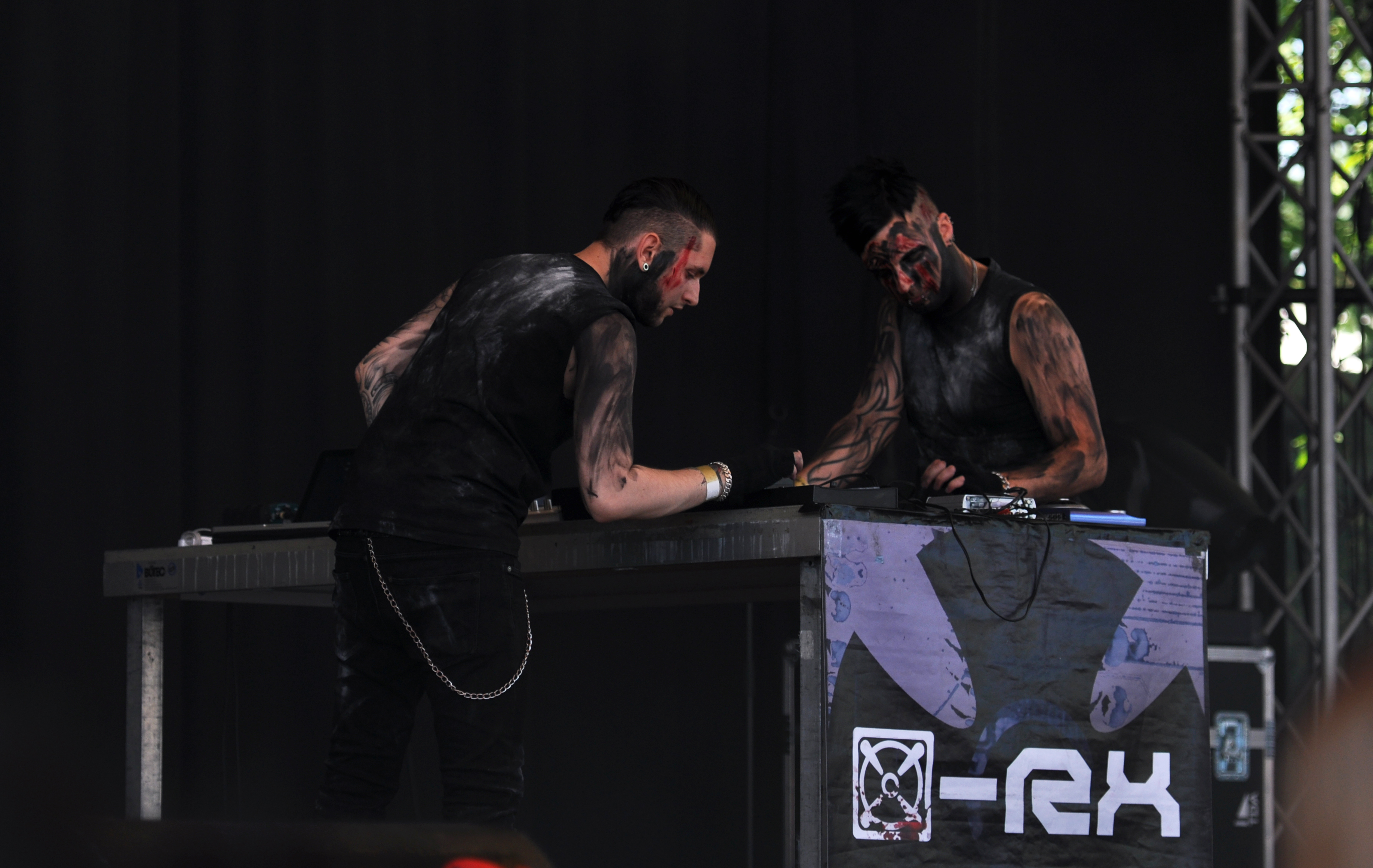 [x]-Rx at the Amphi Festival 2013, Cologne, Germany